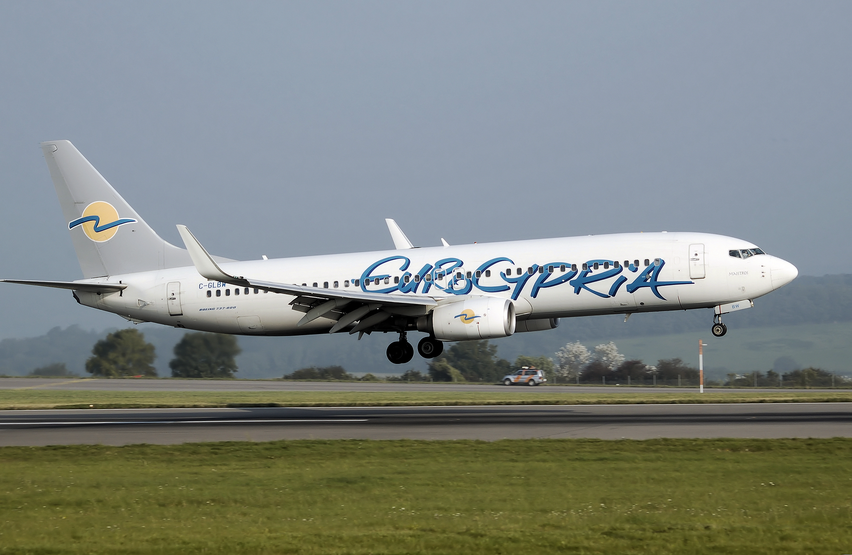 Eurocypria Boeing 737-800 (5B-DBW) lands at Bristol International Airport, England. The registration is temporarily Canadian (C-GLBW) because this aircraft has been on lease to Sunwings of Canada. Taken by Adrian Pingstone in September 2008 and released to the public domain.